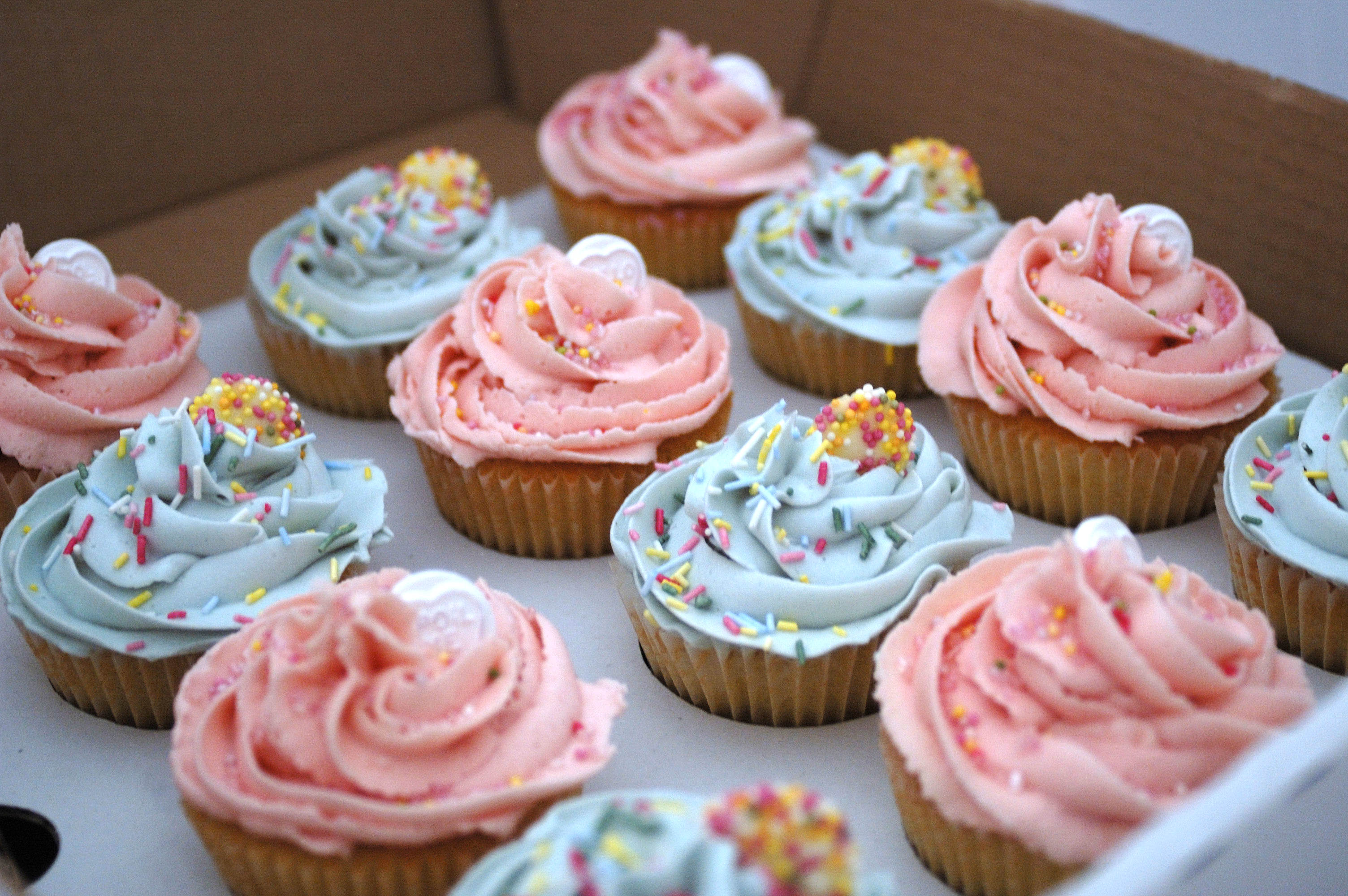 Very Vanilla Cupcakes, complete with colourful sprinkles and buttercream icing topping a moist vanilla sponge. Cake baked by Rosie and Richard's ( and picture taken and owned by Sarah Howells.